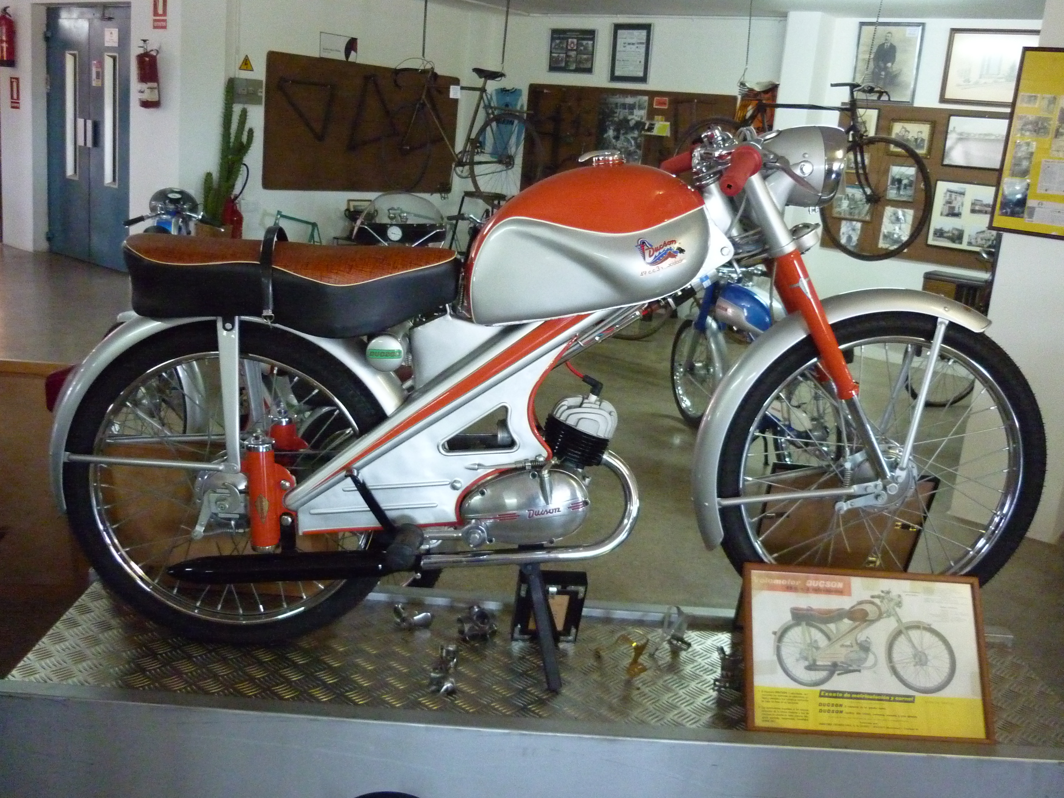 Ducson moped Repris 49cc (1960), with a 3 CV engine and 80 Km/h. Isern Motorcycle Museum, Mollet del Vallès (Catalonia).